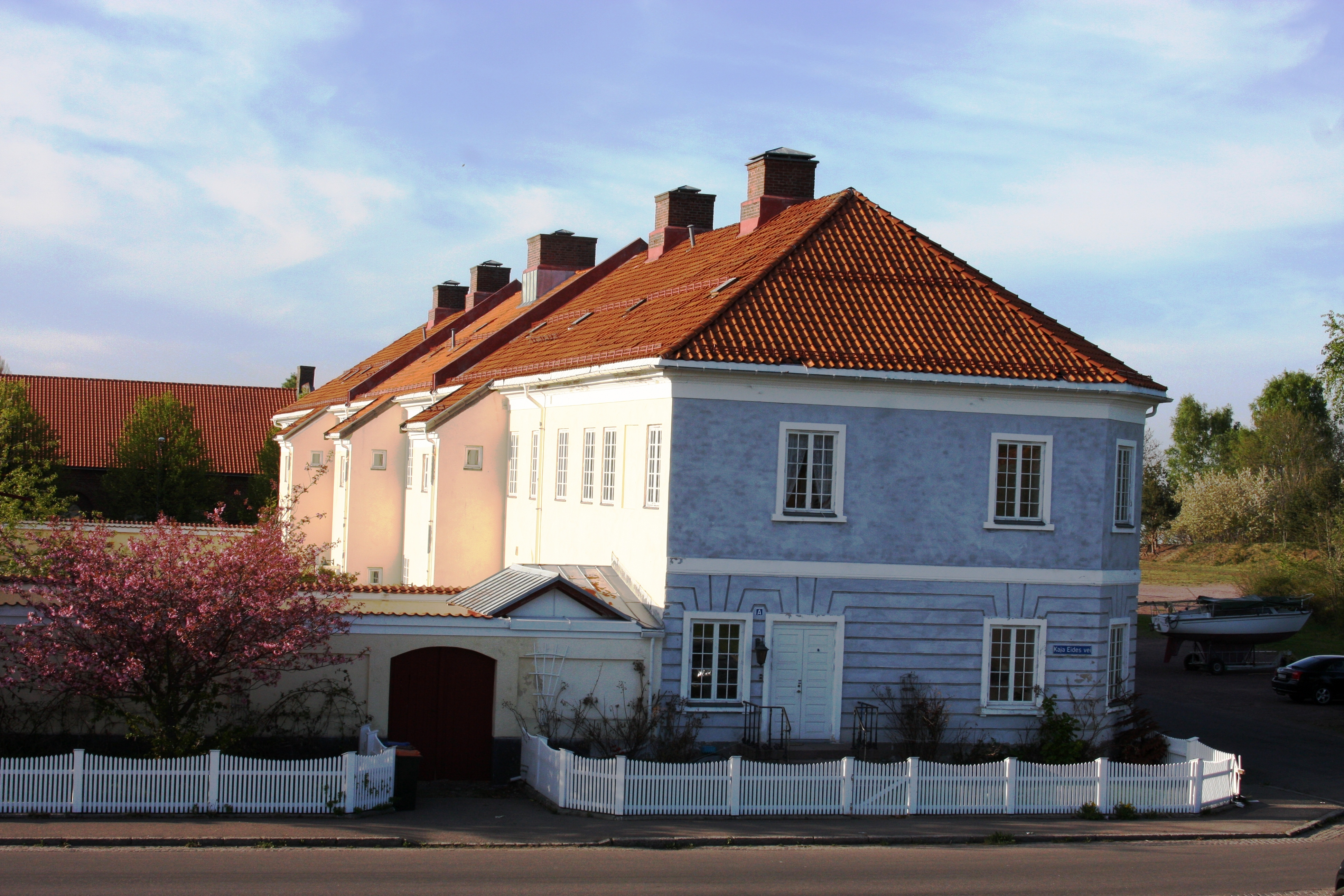 Karljohansvern military facility, 18th century, in Horten (Norway)